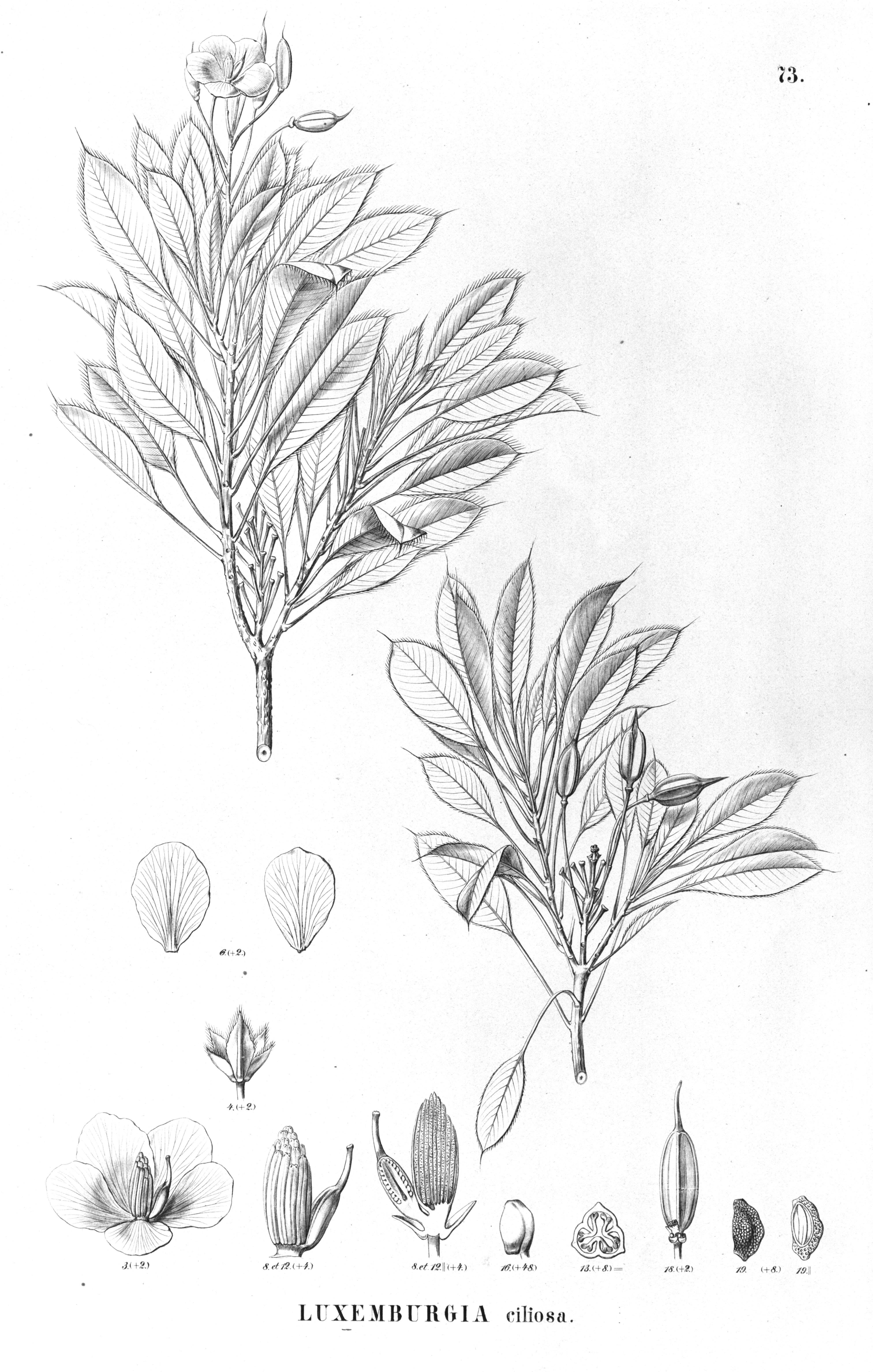 Illustration of Luxemburgia ciliosa (Ochnaceae)